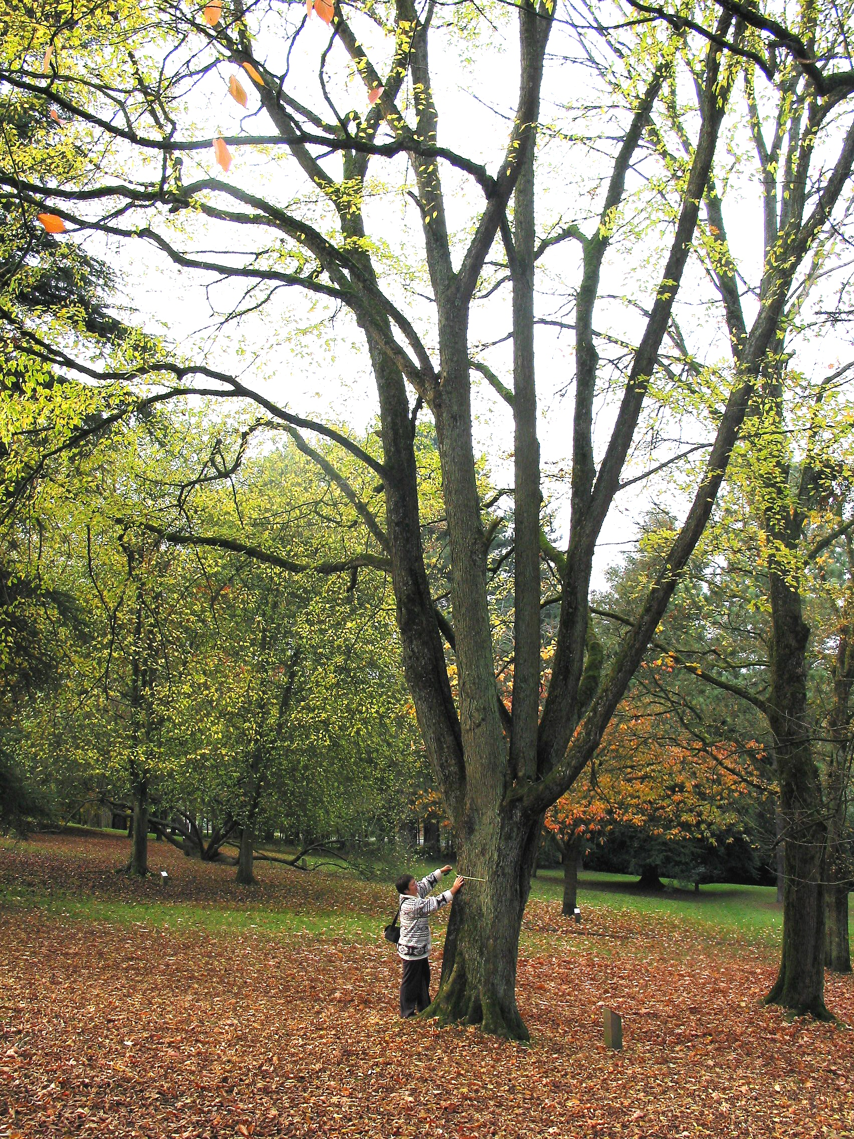 European Hop-hornbeam.